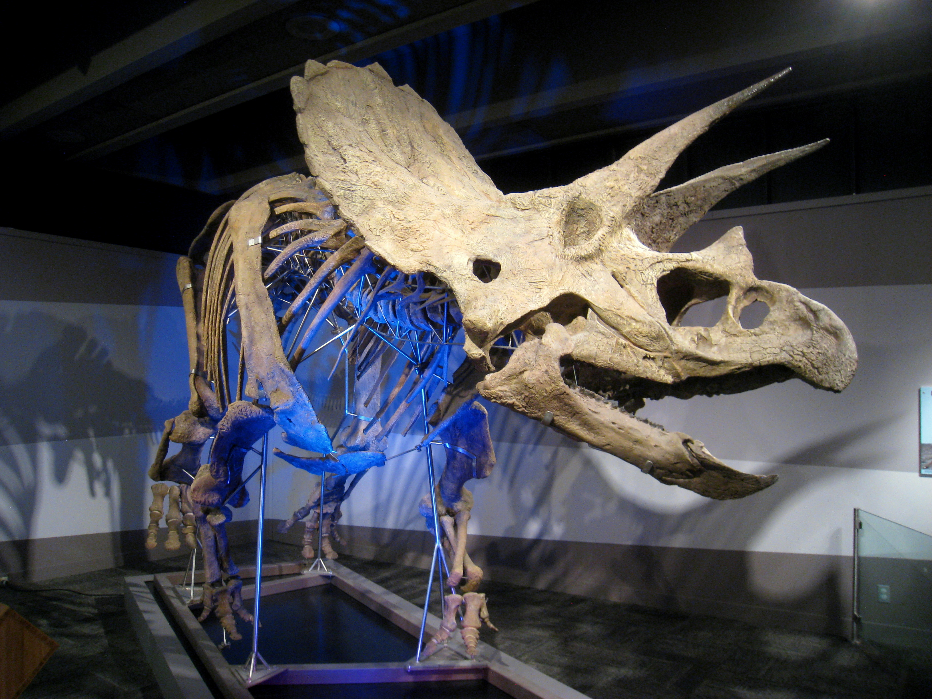 Fossil Tricerotops horridus in Museum of Science, Boston, Massachusetts, USA. Note that there was no prohibition against photography in the museum.